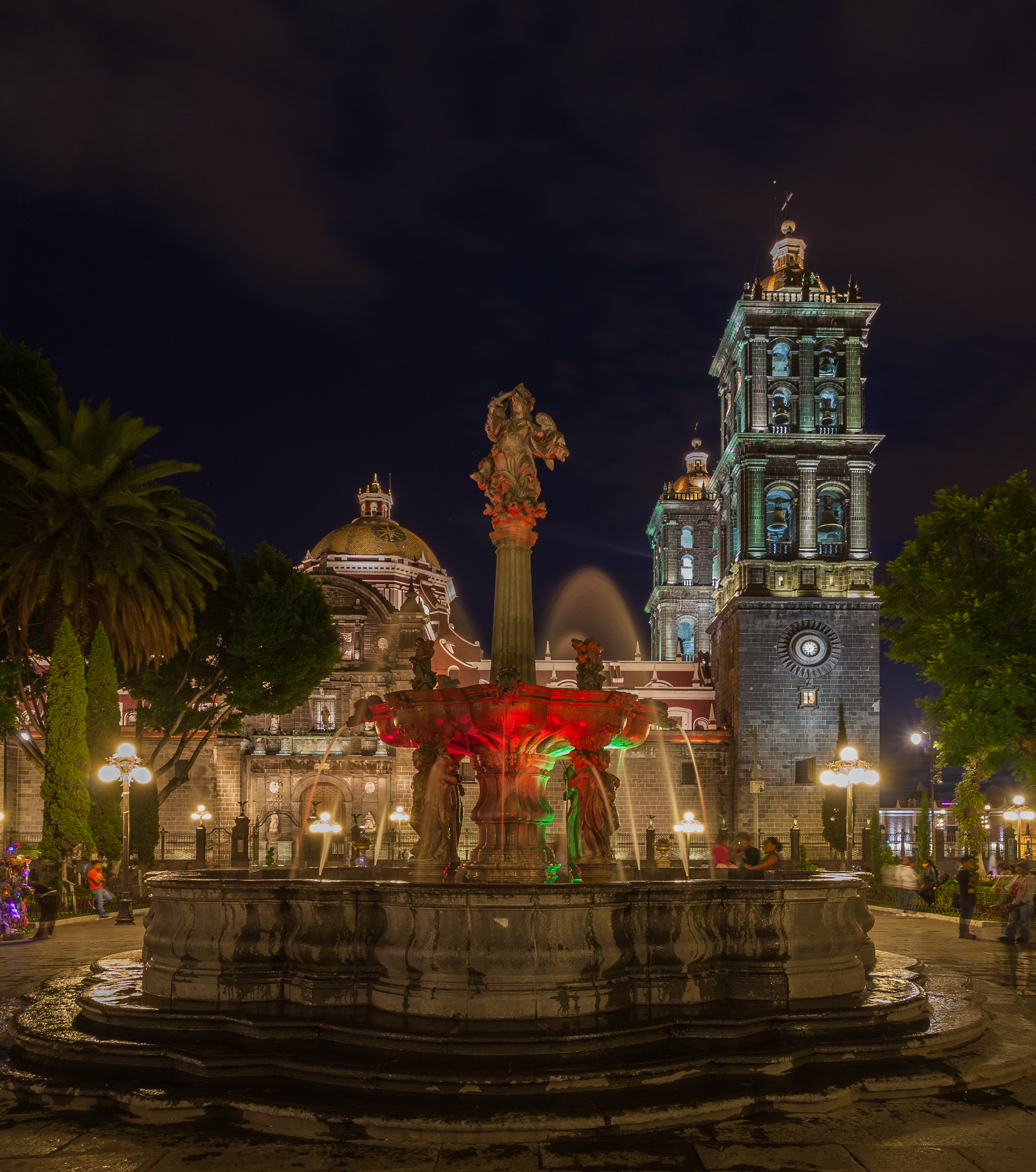 In the foreground the baroque style St Michael fountain, located in the Main Square of Puebla, dates from 1777. In the background the spectacular Cathedral, build in 1649 and of Herrerian style, Puebla, Mexico.